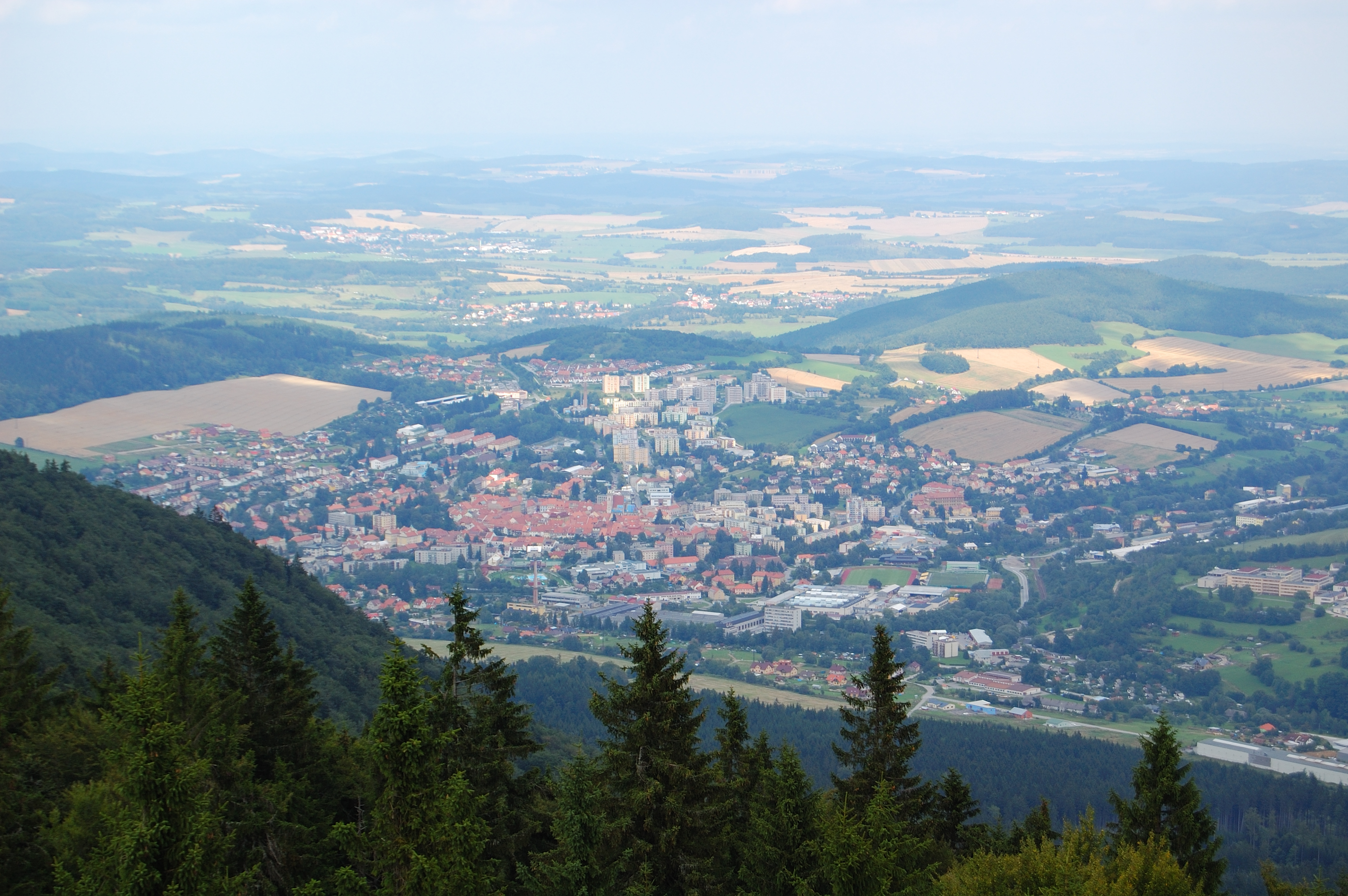 A view of the city of Prachatice from the observation tower atop the Libín mountain, Czech republic.